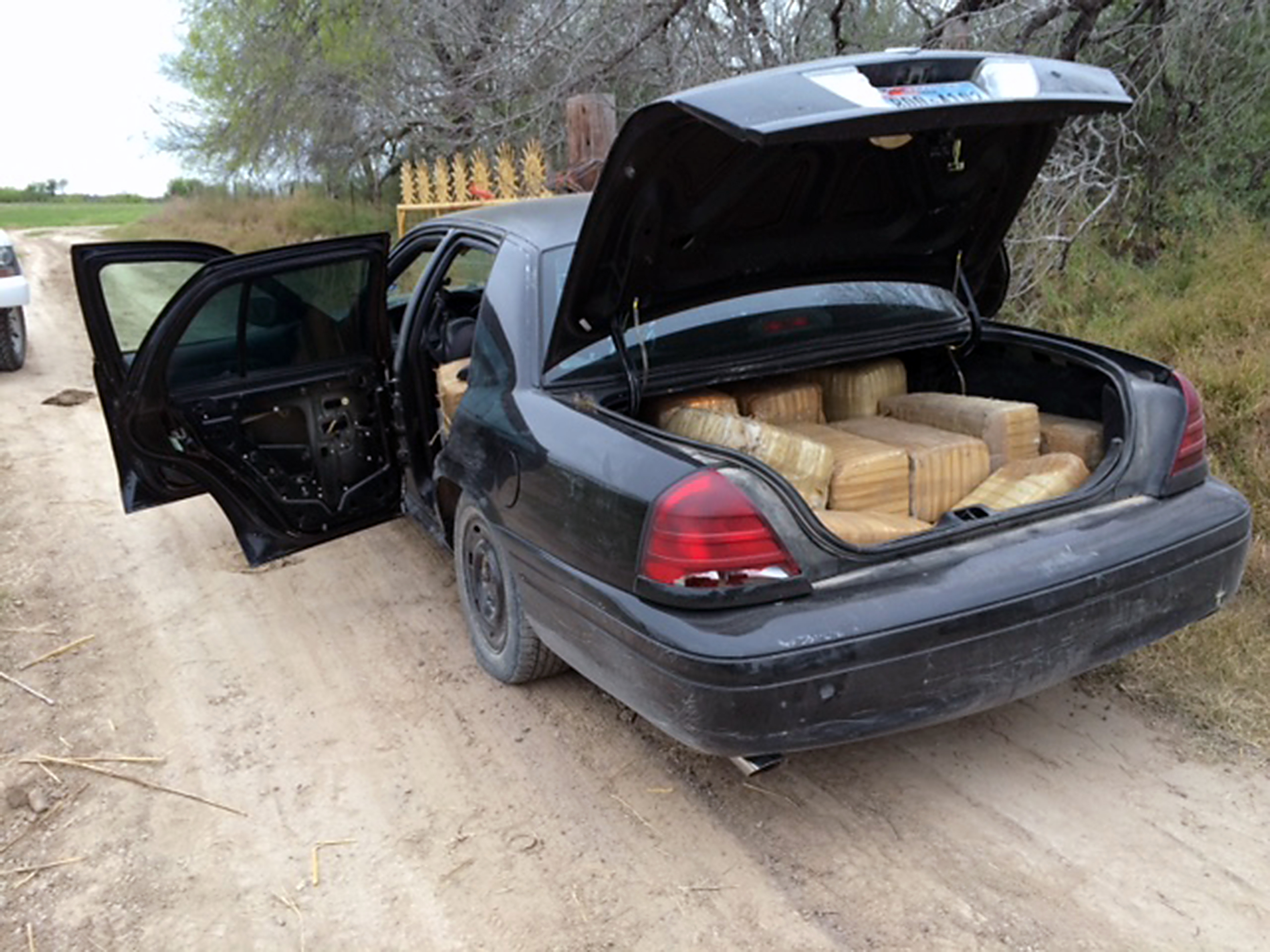 EDINBURG, Texas – Rio Grande Valley Sector Border Patrol agents seized $3.5 million worth of marijuana over this past weekend. Seen here is a seized vehicle loaded with bundles of marijuana. Photo provided by: U.S. Customs and Border Protection